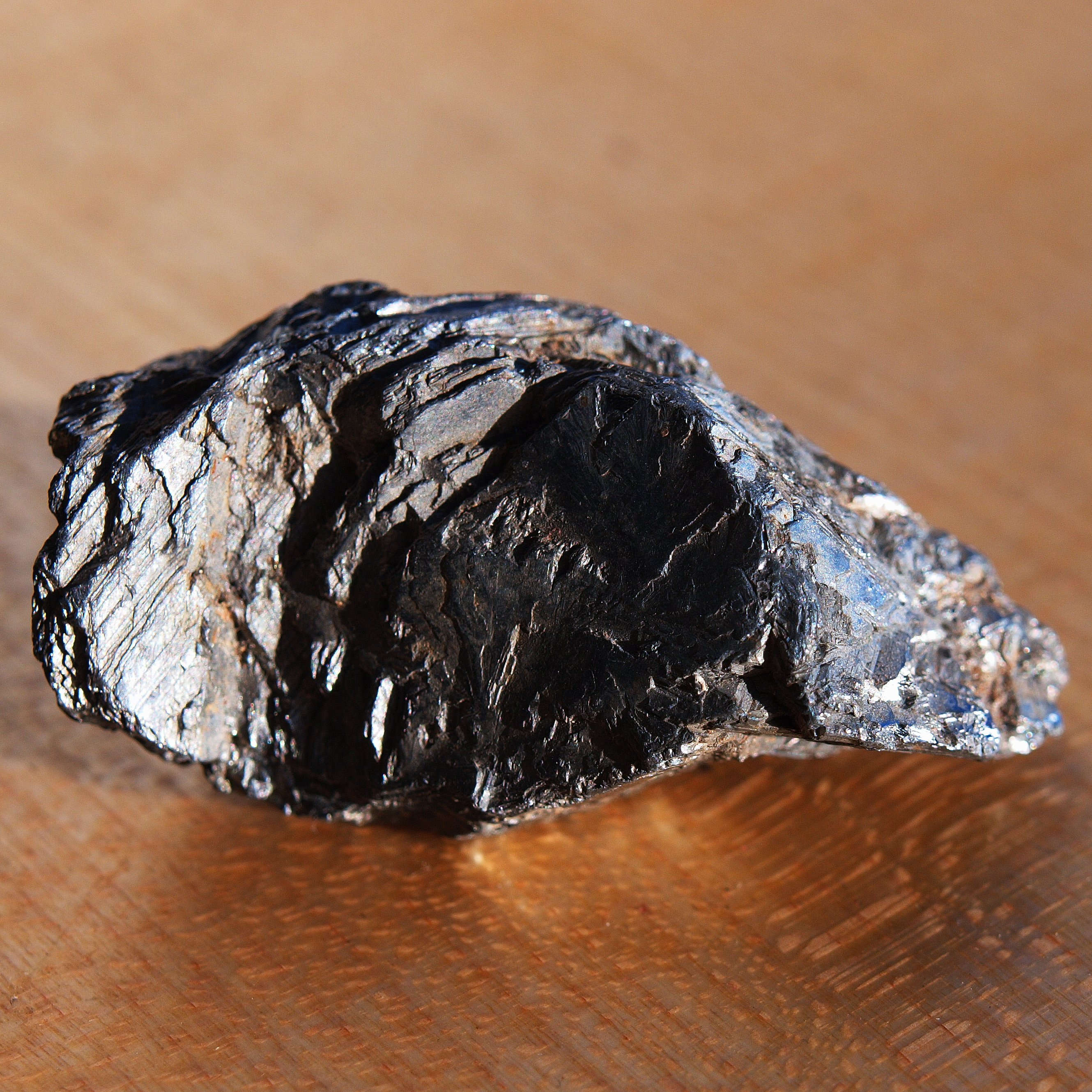 Antimon P. Cikovac as used by L. Mory tin pewtery